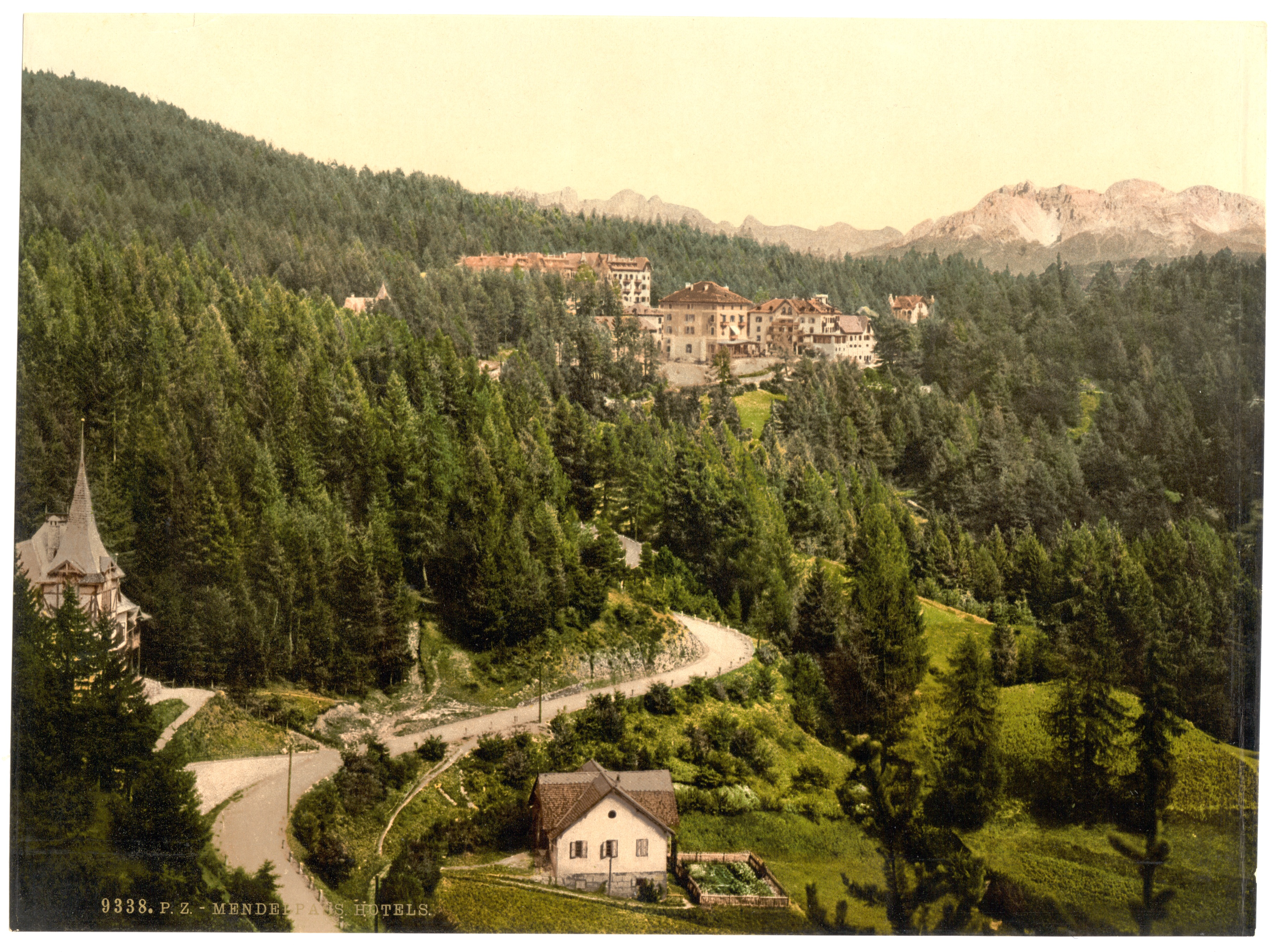 Print no. "9338".; Title from the Detroit Publishing Co., Catalogue J-foreign section, Detroit, Mich. : Detroit Publishing Company, 1905.; Forms part of: Views of the Austro-Hungarian Empire in the Photochrom print collection.